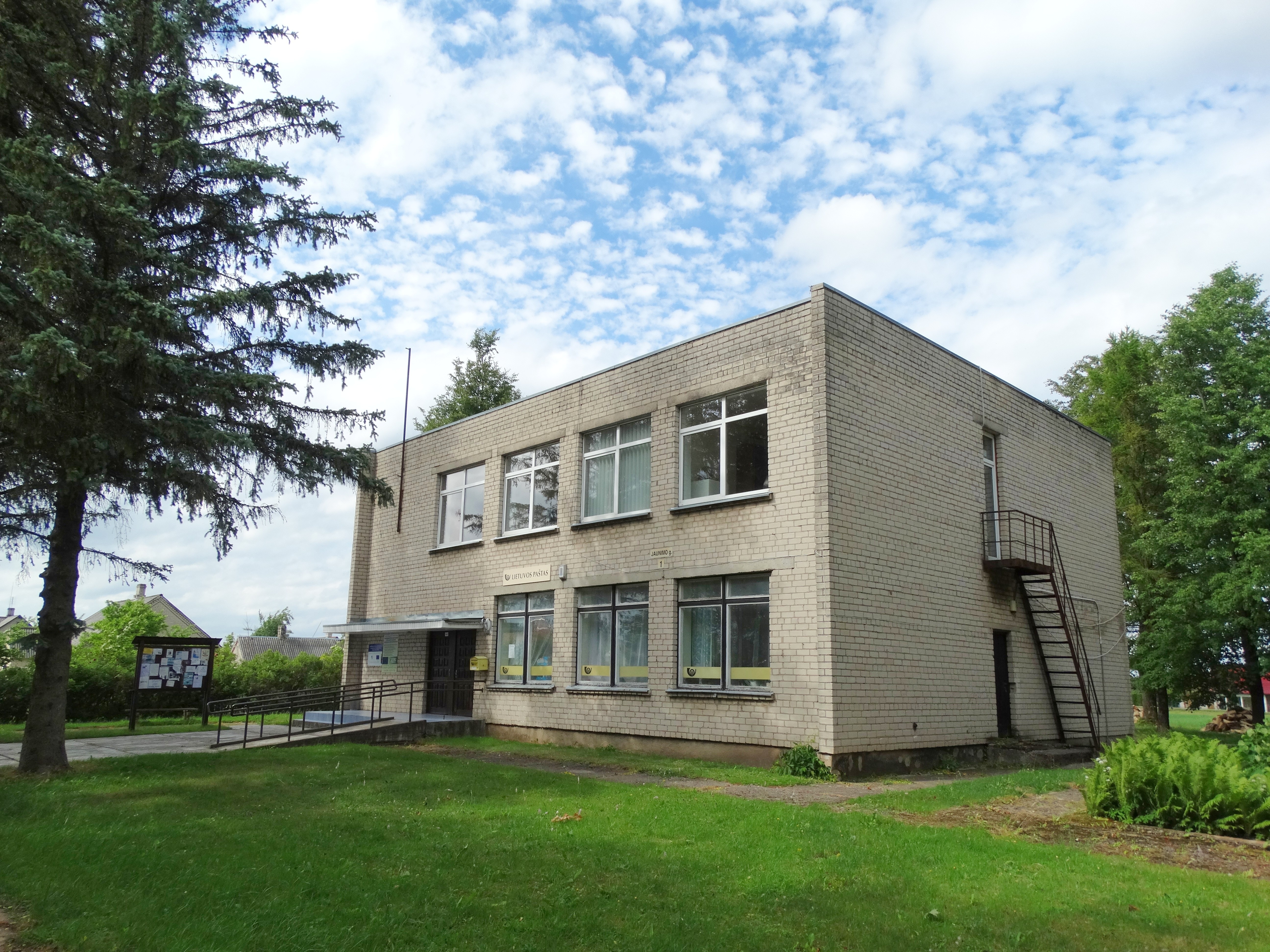 Jauniūnai eldership, Širvintos District, Lithuania